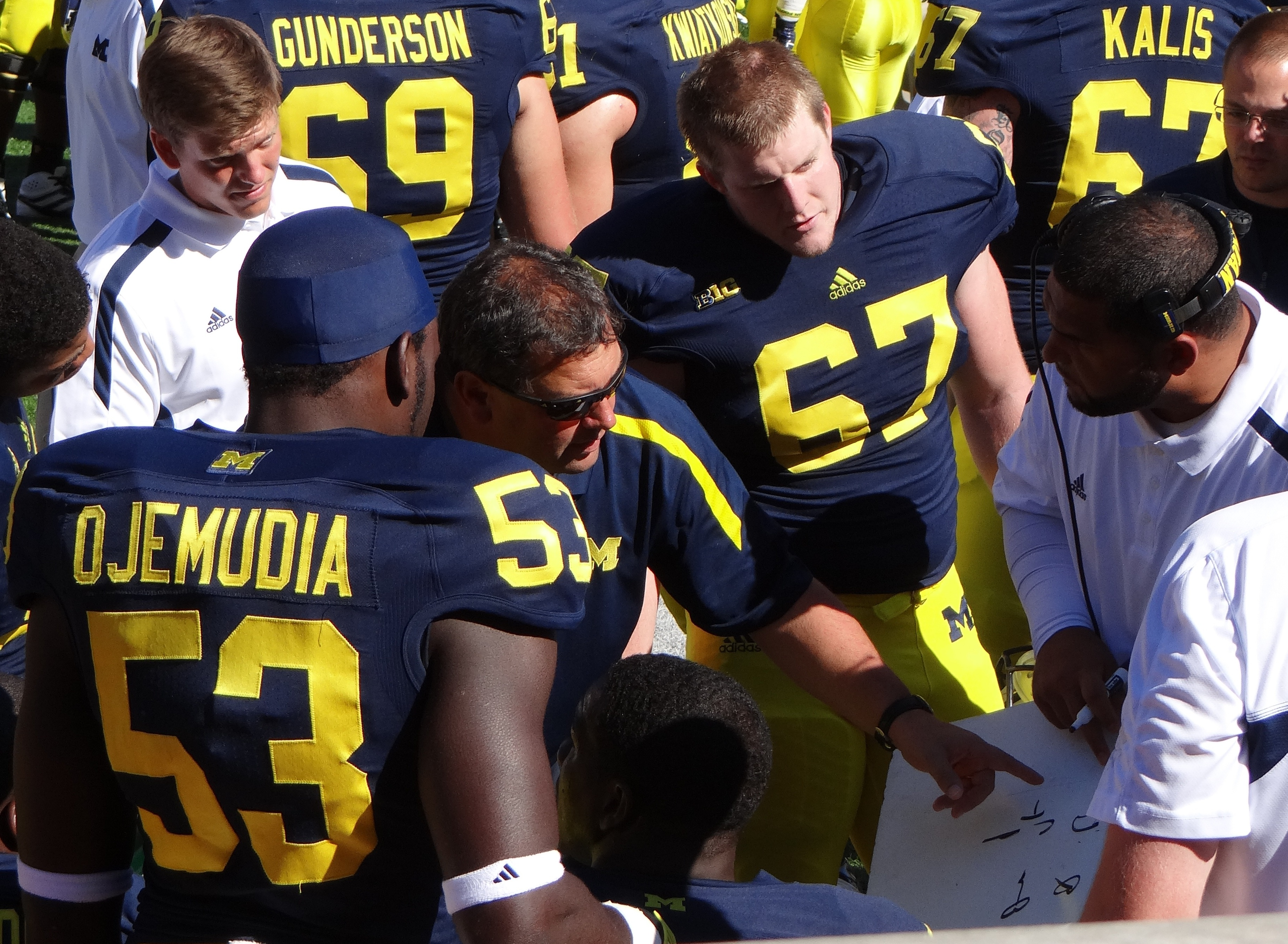 Michigan head coach Brady Hoke and defensive line coach Jerry Montgomery work on the sidelines with Michigan's defensive linemen